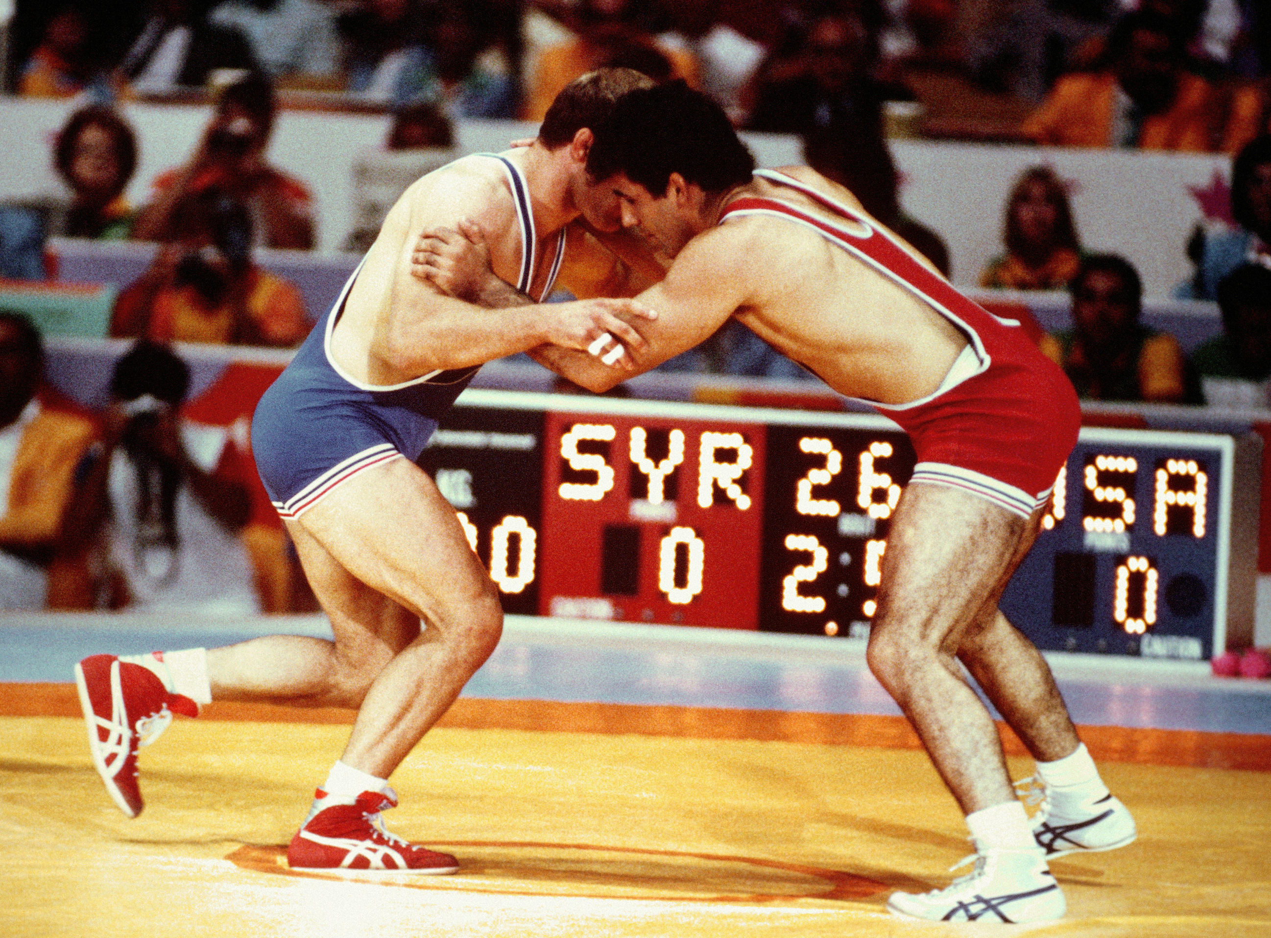 Army Second Lieutenant Ludwig Banach, left, wrestles Joseph Atiyeh of Syria during the 1984 Summer Olympics. (original text)